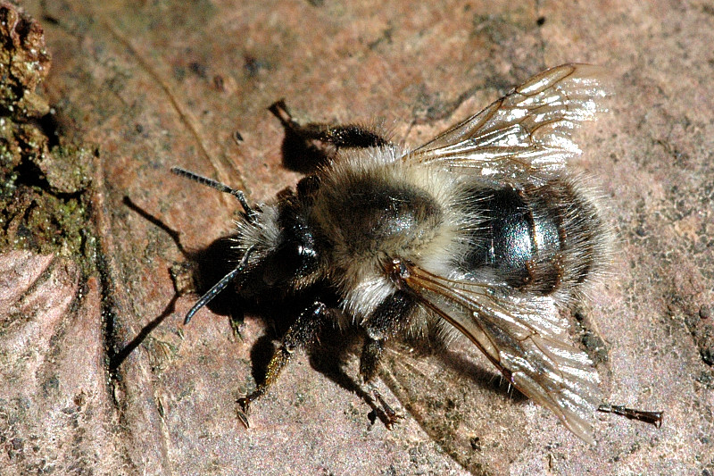 Bombus sp. possibly Bombus sylvarum from Commanster, Belgian High Ardennes .